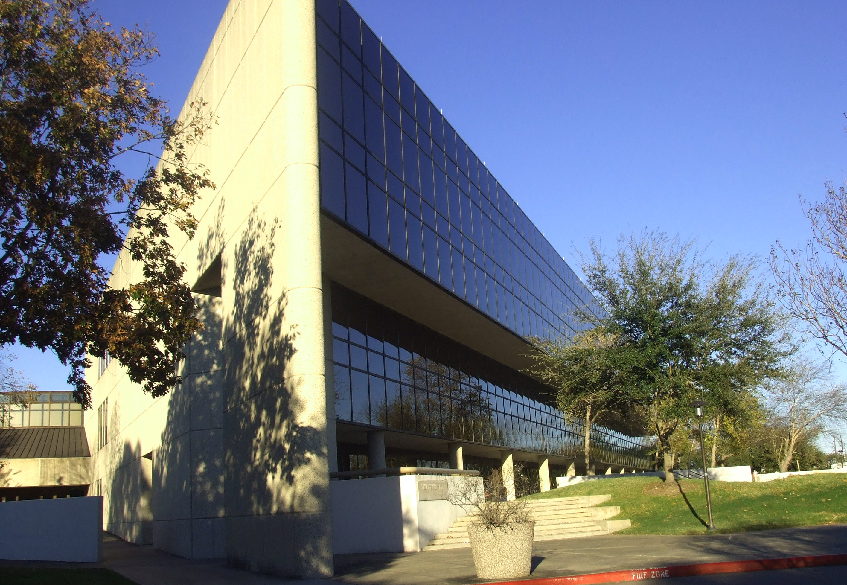 LeRoy and Lucille Melcher Hall, the home of Bauer College of Business at the University of Houston